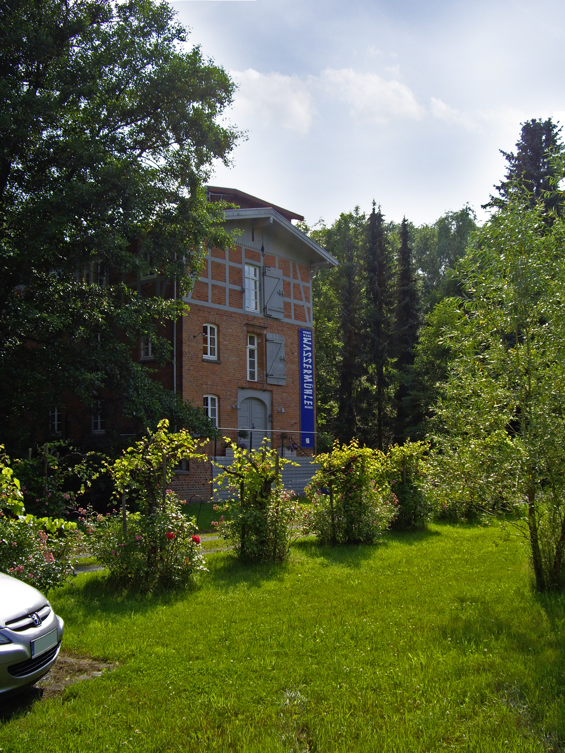 old water mill in Melbeck.